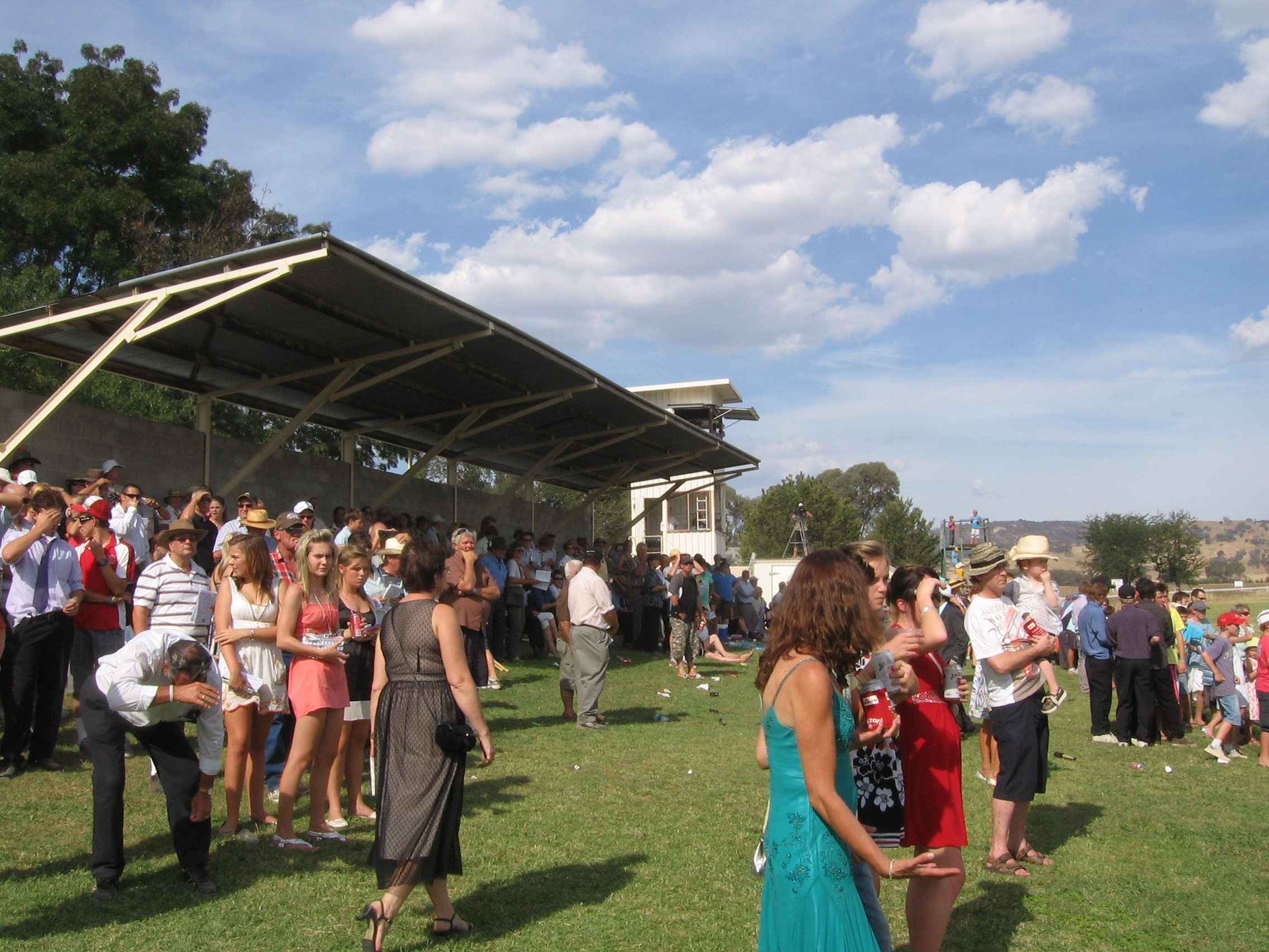 The Holbrook Cup thoroughbred race meeting